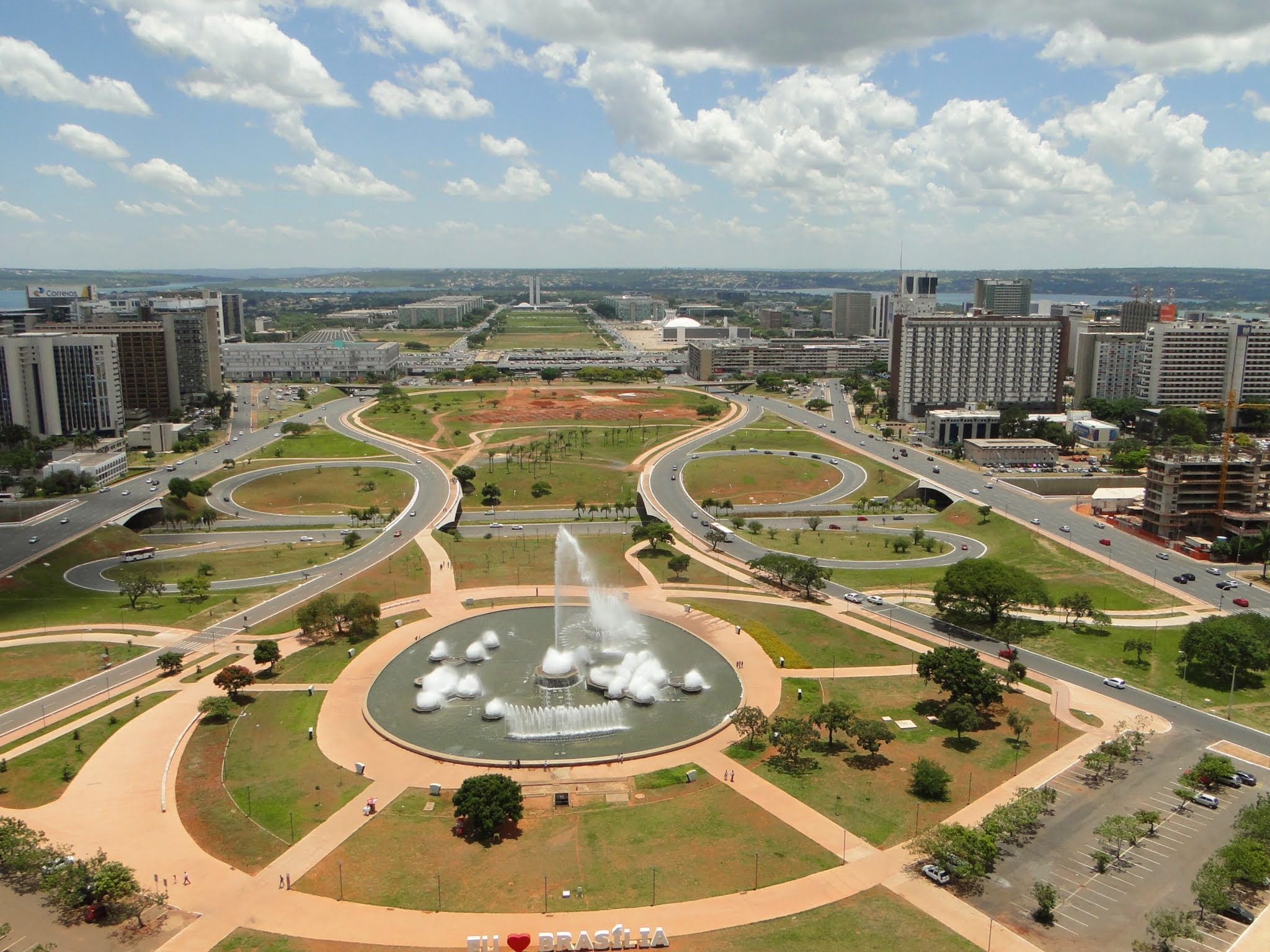 Aerial view from TV tower